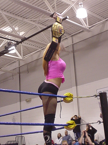 Professional wrestler April Hunter with the NWA Cyberspace Women's Championship on March 16, 2005